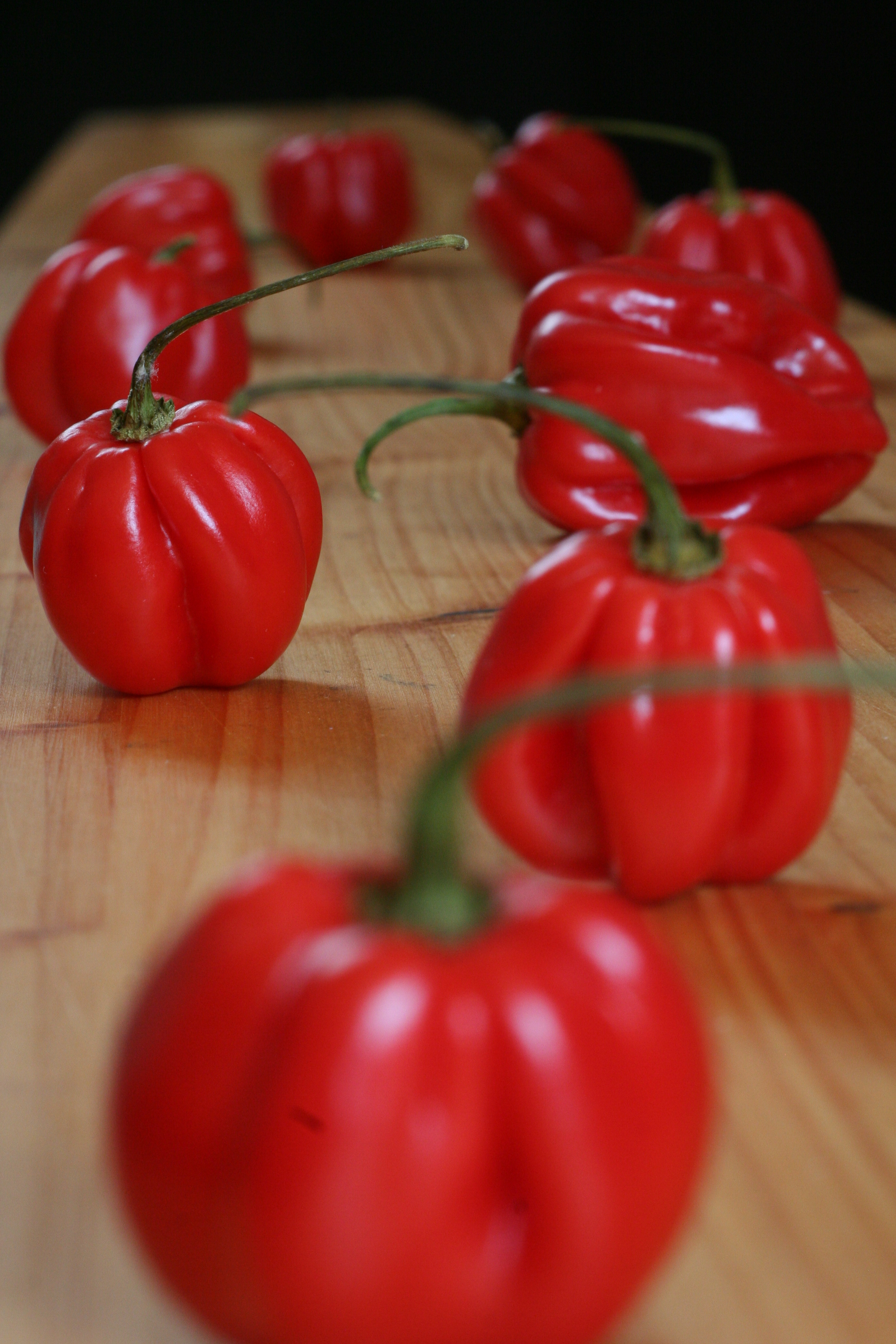 Lens 55mm/16 sharp at 40cm with a circle of Habaneros, left at 20,40,60,80 and 100cm; right at 30,50,70,90cm; large Habanero at 50cm